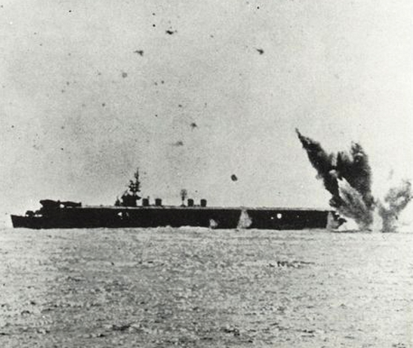 The U.S. Navy light aircraft carrier USS Cabot (CVL-28) under air attack, circa in 1944.